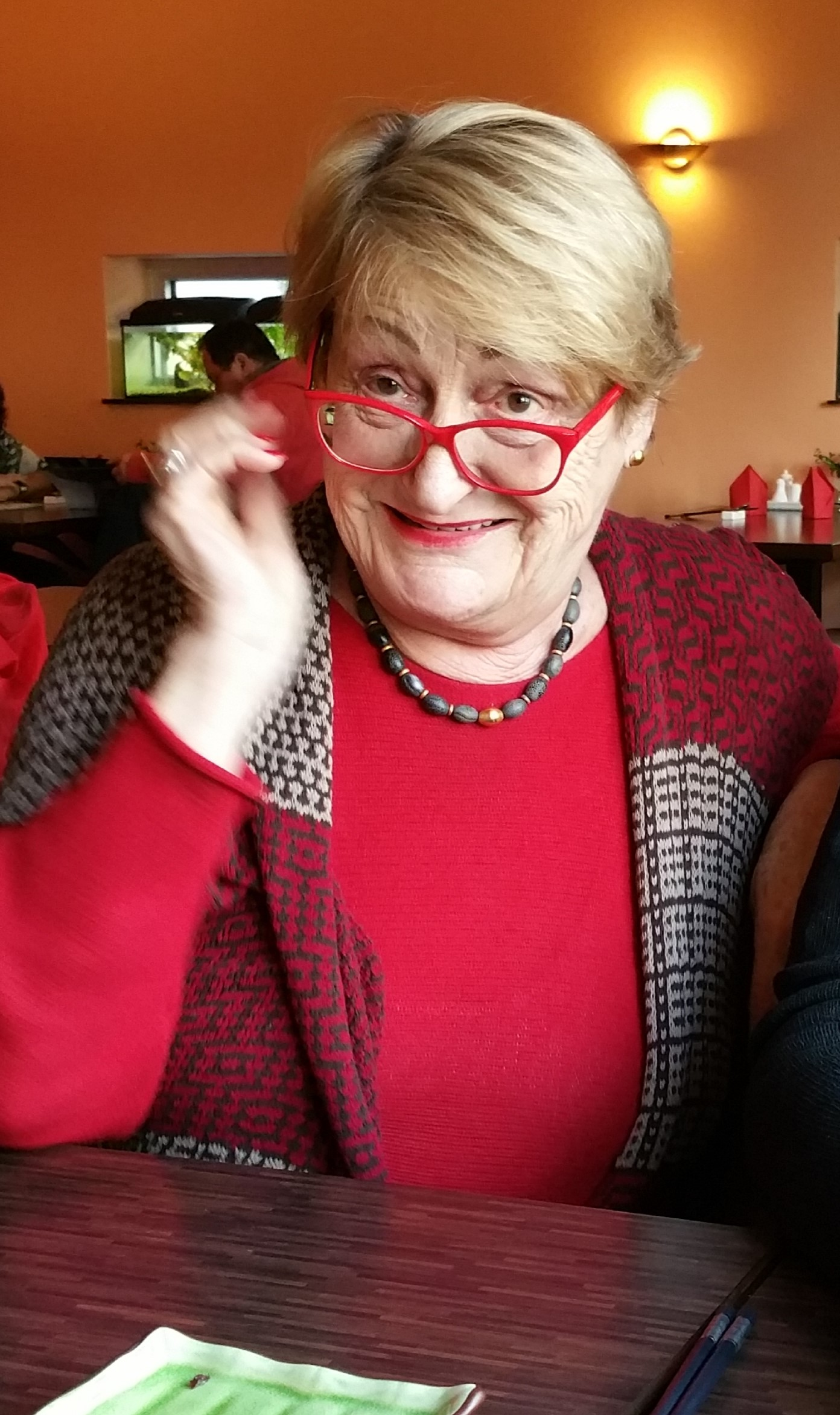 Portrait Inge Bongers-Ritter, 2018